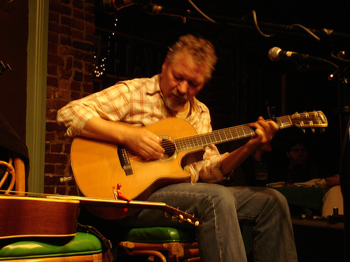 Tim Krekel.